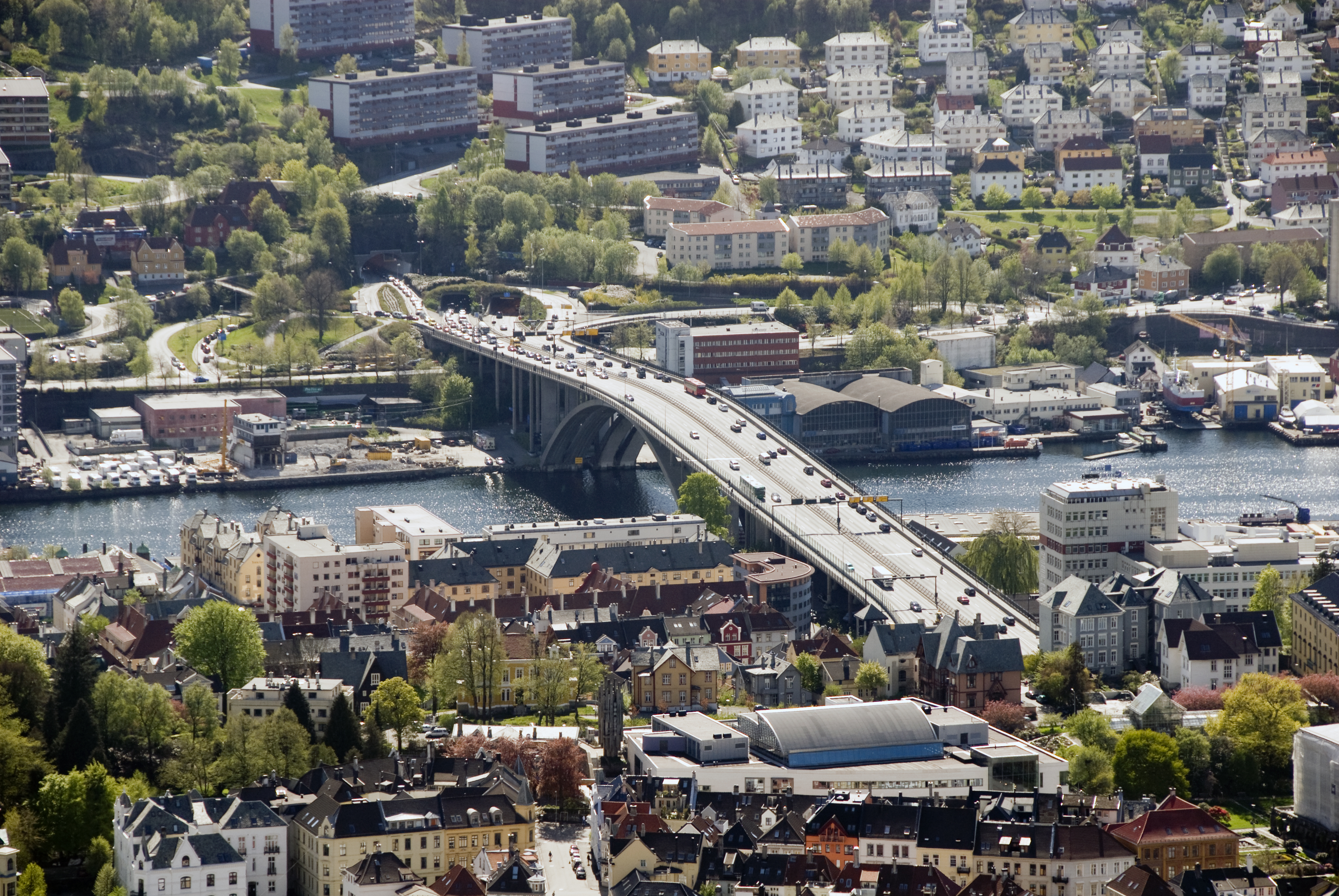 The Puddefjord Bridge in Bergen, Norway. In the background the entrances to the Løvstakk Tunnel and the Damsgård Tunnel